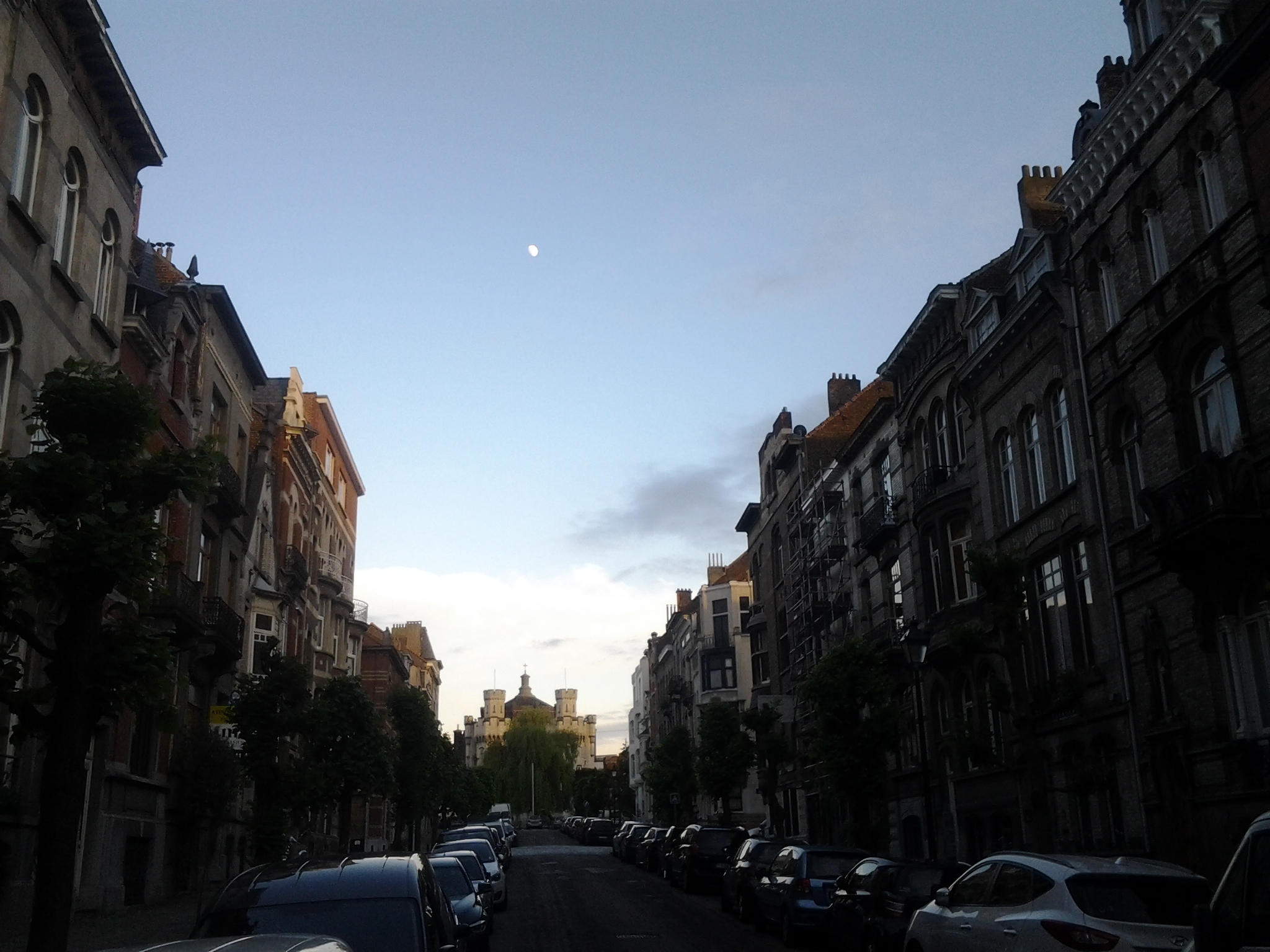 Je lambeaux avenue by night